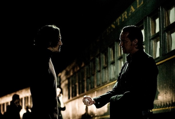 Chris Potter as Jimmy and Karl Anderson as Cleveland.